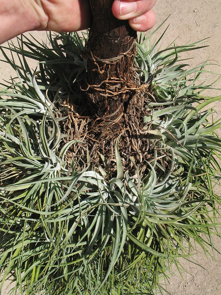 Tillandsia kammii in cultivation at the Botanical Garden of Heidelberg, Germany.